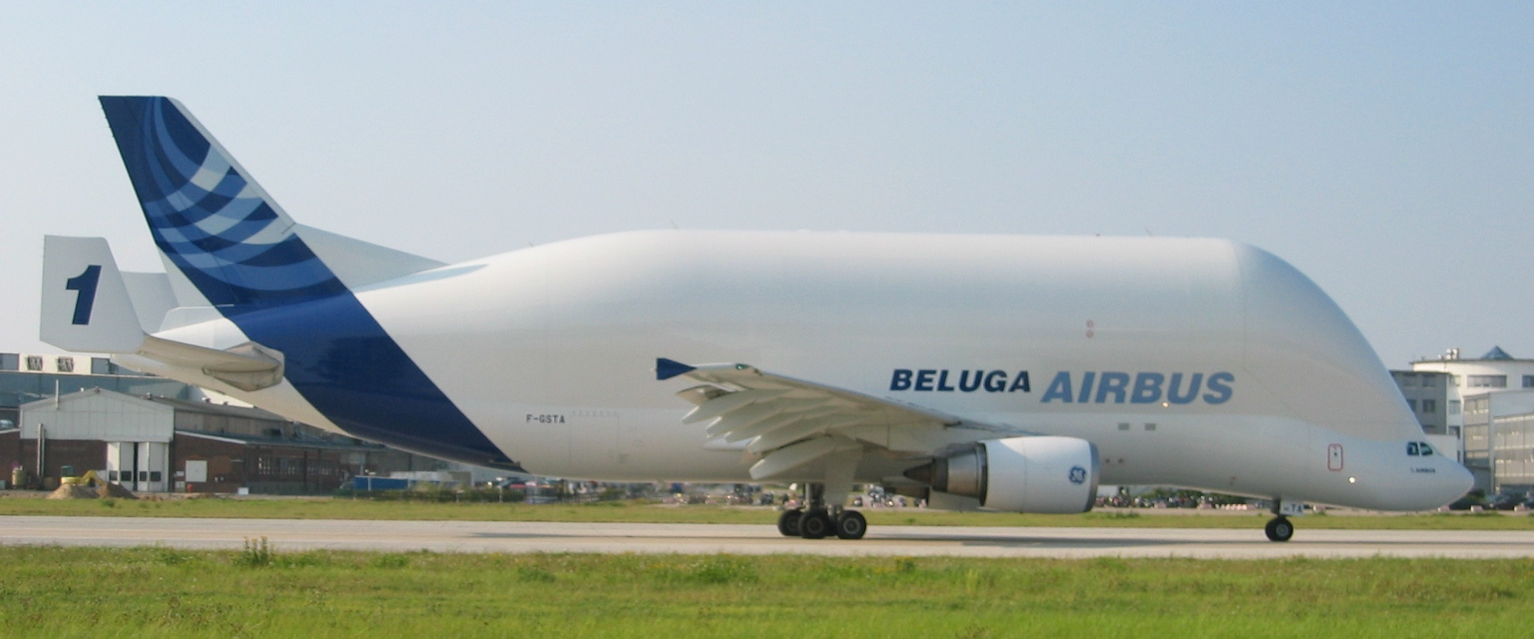 Airbus A300-600ST "Beluga" in new colours, Hamburg 9/2005 Image taken by Xeper and released under GFDL/CC-by-sa Uploaded to wiki by Xeper.